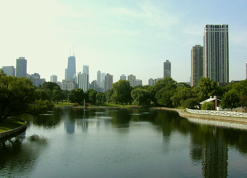 Lincoln Park Zoo, Chicago, Illinois, USA